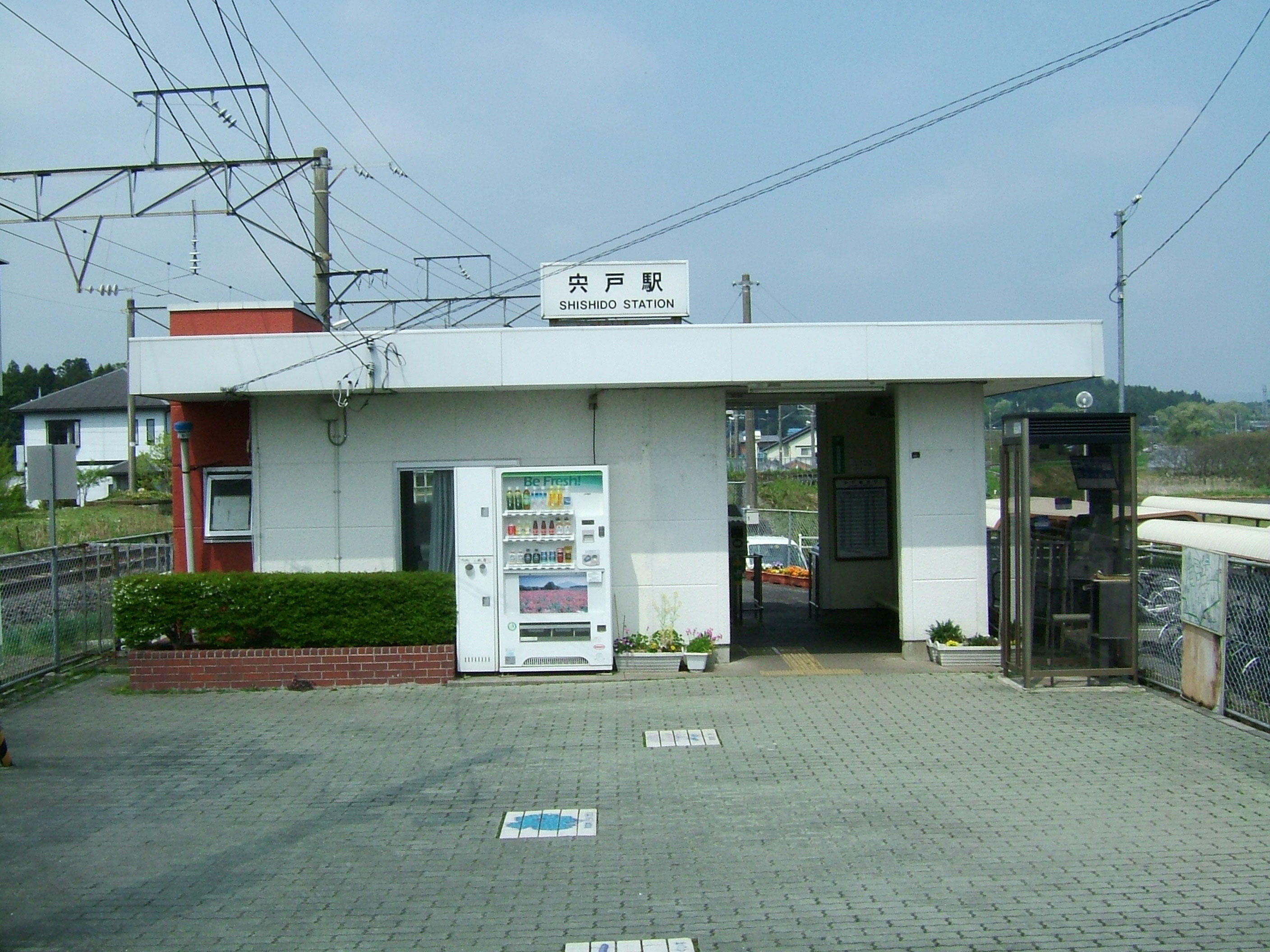 Shishido Station (East Japan Railway Mito Line)